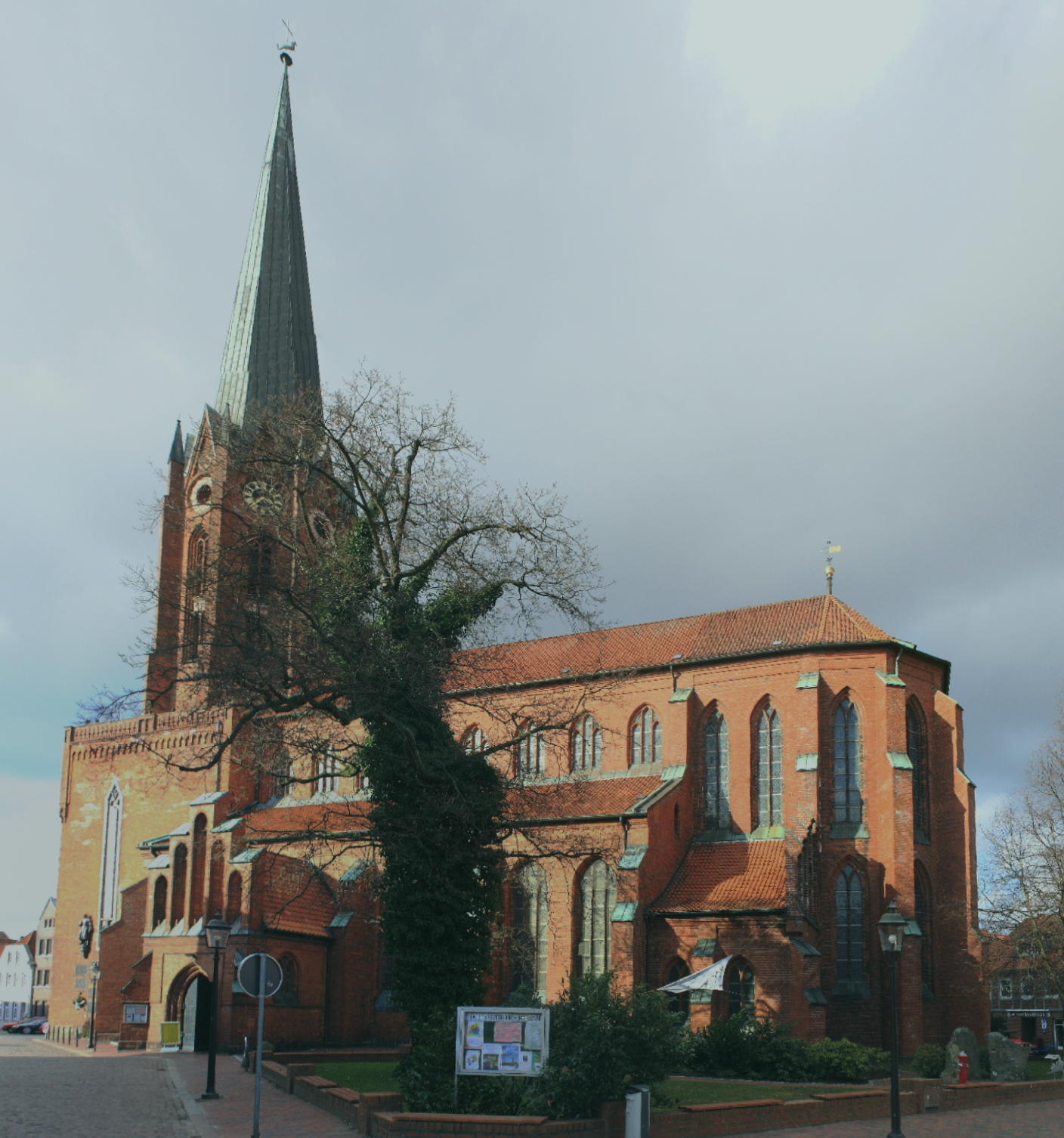 St. Peter's Church in Buxtehude